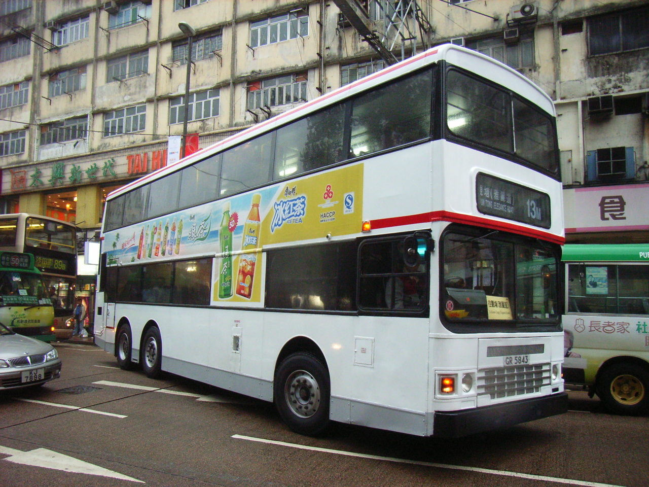 觀塘zh:裕民坊 裕華大廈 九龍巴士13M線 康師傅巴士車身廣告